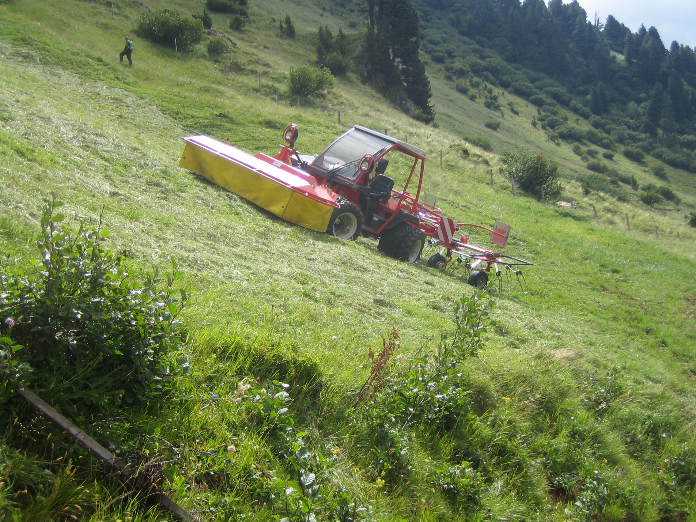 Reform Metrac G5, a two-axle mower specially designed for the Bergmahd (slope equipment carrier, special tractor) with mower in the front and rotary tiller in the rear attachment